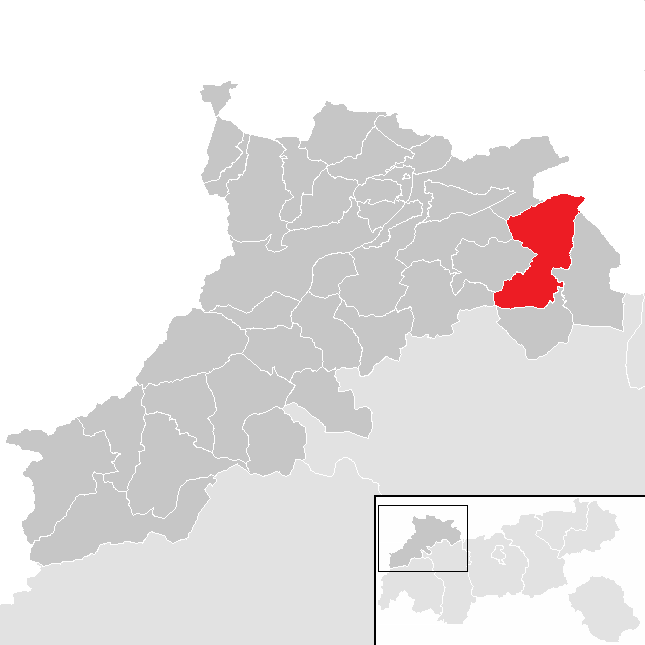 District Reutte